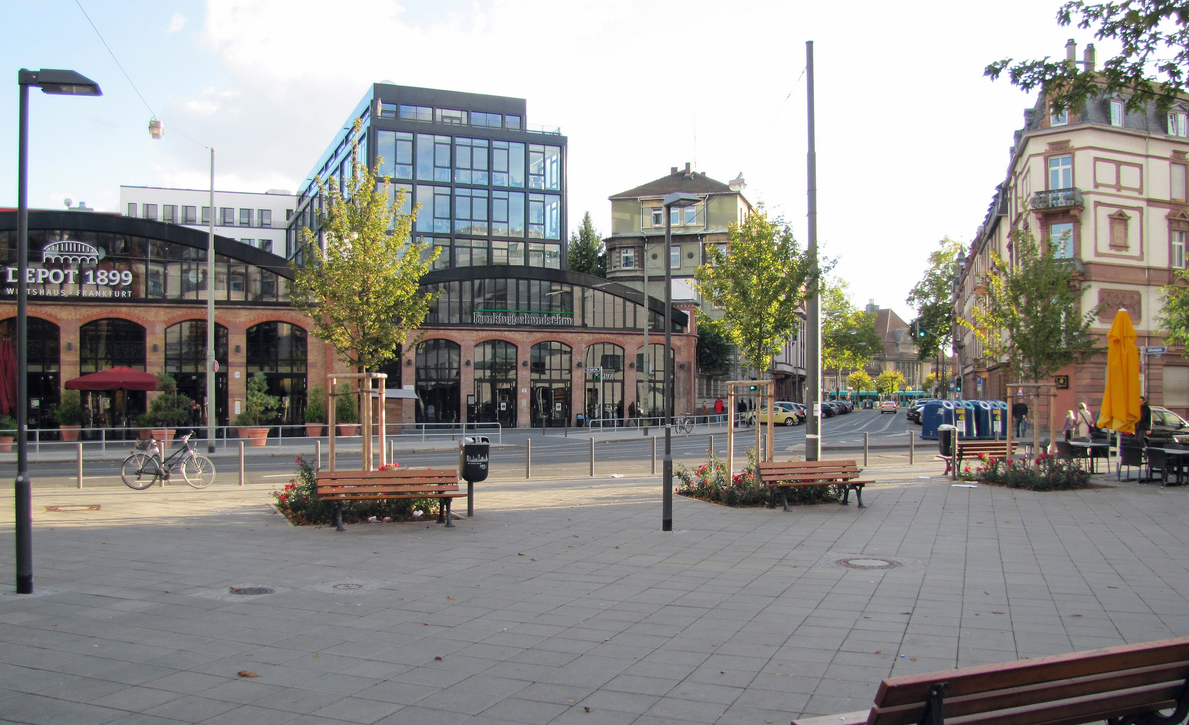 "Karl-Gerold-Platz" in Frankfurt am Main (Sachsenhausen), with headquarters of the newspaper "Frankfurter Rundschau", in Germany.